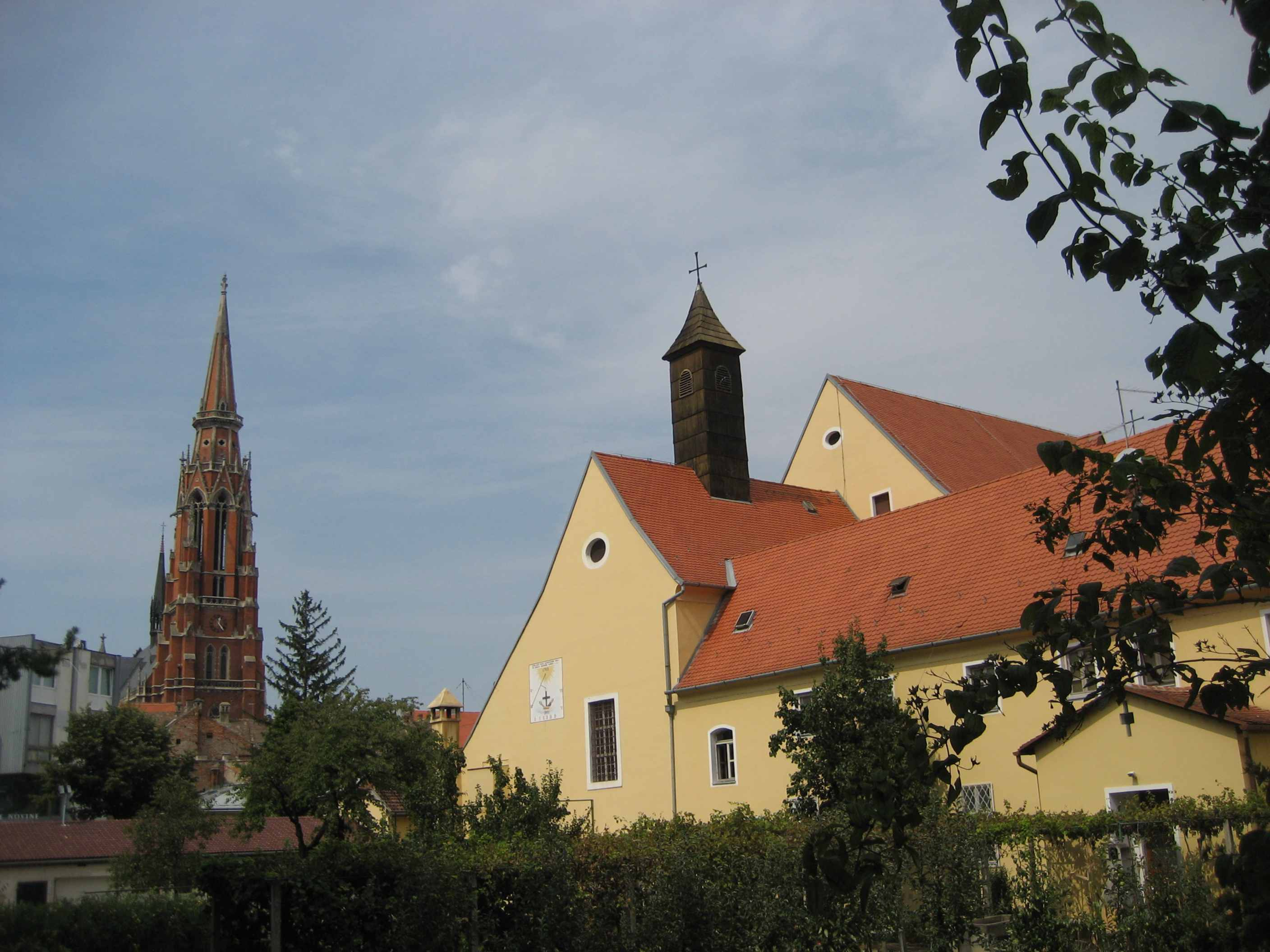 Osijek, Croatia